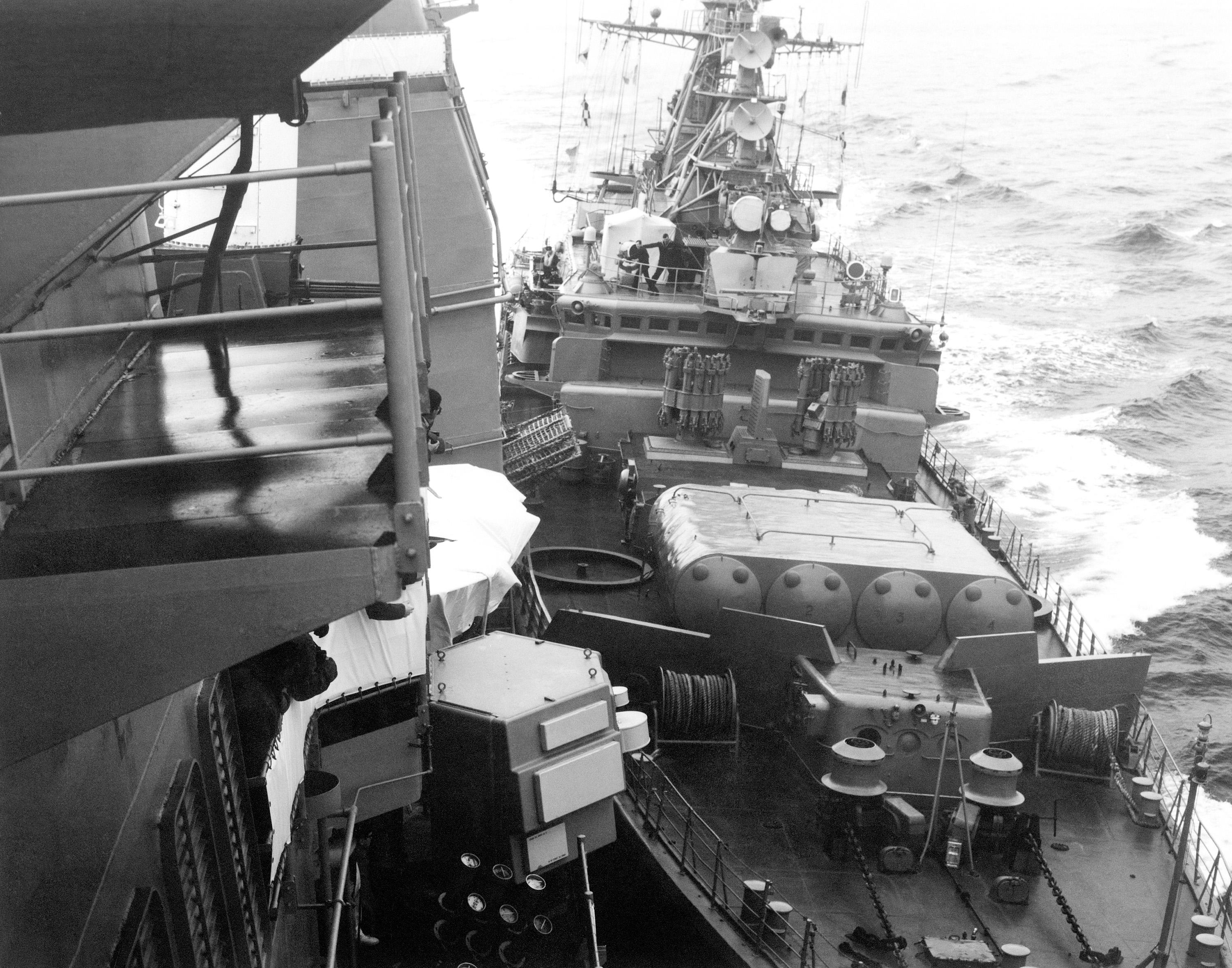 On 12 February 1988, the U.S. Navy cruiser USS Yorktown, while exercising the "right of innocent passage" for a spy mission in Soviet territorial waters, was rammed by the Soviet frigate Bezzavetniy (collision pictured) with the intention of pushing the Yorktown into international waters. This action has been called "the last incident of the Cold War". Service Depicted: Multi-National The SOVIET Krivak I class guided MISSILE frigate BEZZAVETNY (FFG 811) impacts the guided MISSILE cruiser USS YORKTOWN (CG 48) as the American ship exercises the right of free passage through the SOVIET-claimed 12-mile territorial waters.